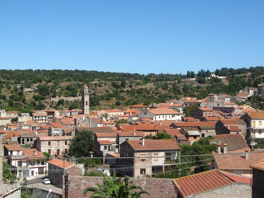 A view from Busachi